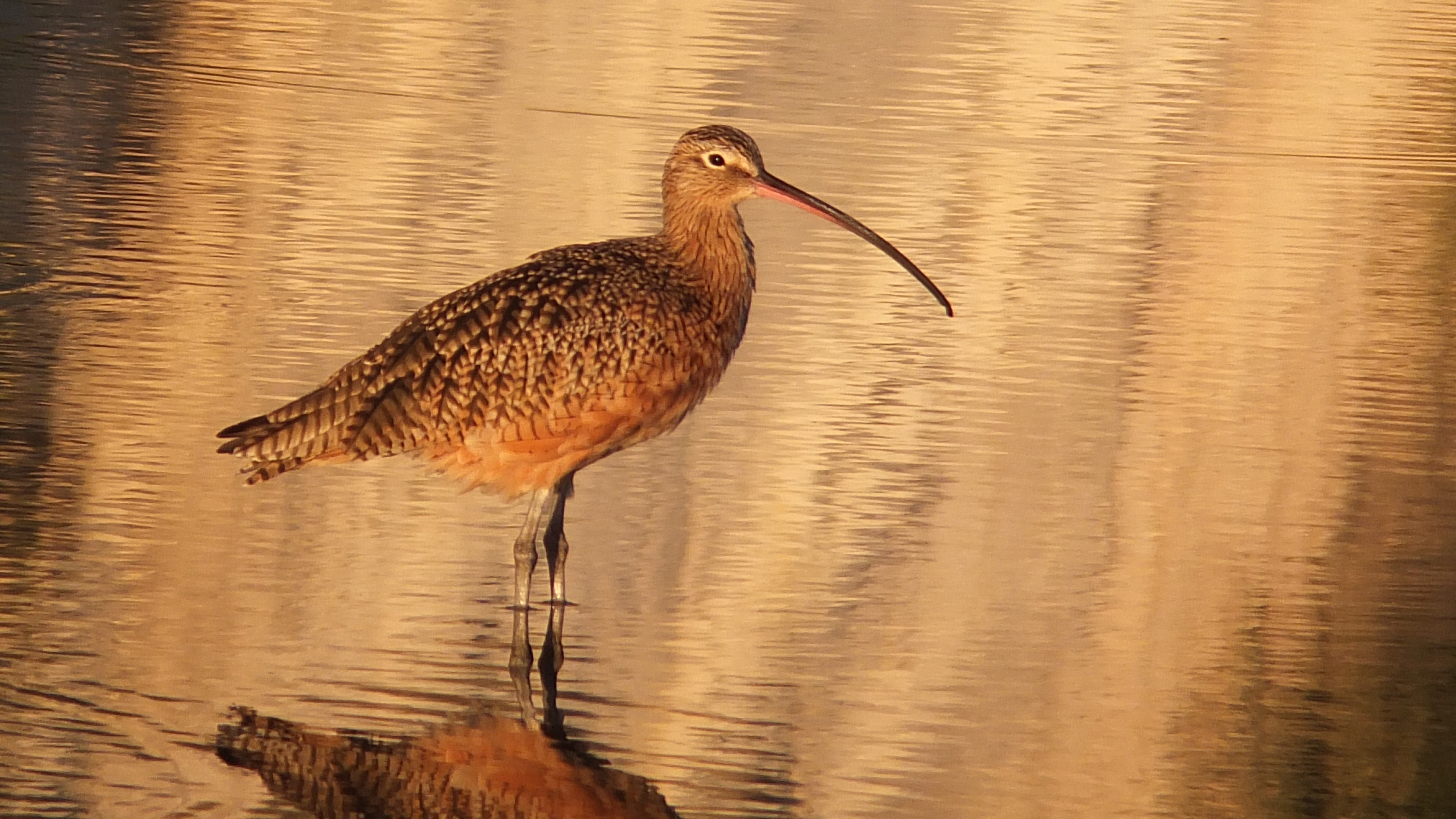 A Long-billed Curlew standing in water at Goleta Beach or the Goleta Slough in Santa Barbara County, California.